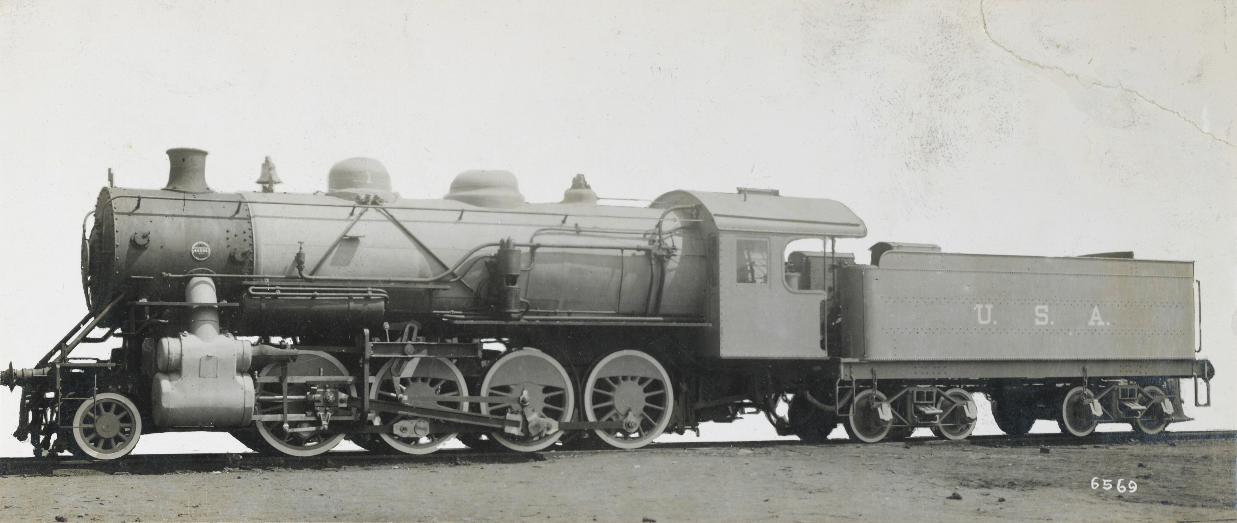 Baldwin builder's photo of the first United States Army 2-8-0 locomotive, in 1917.